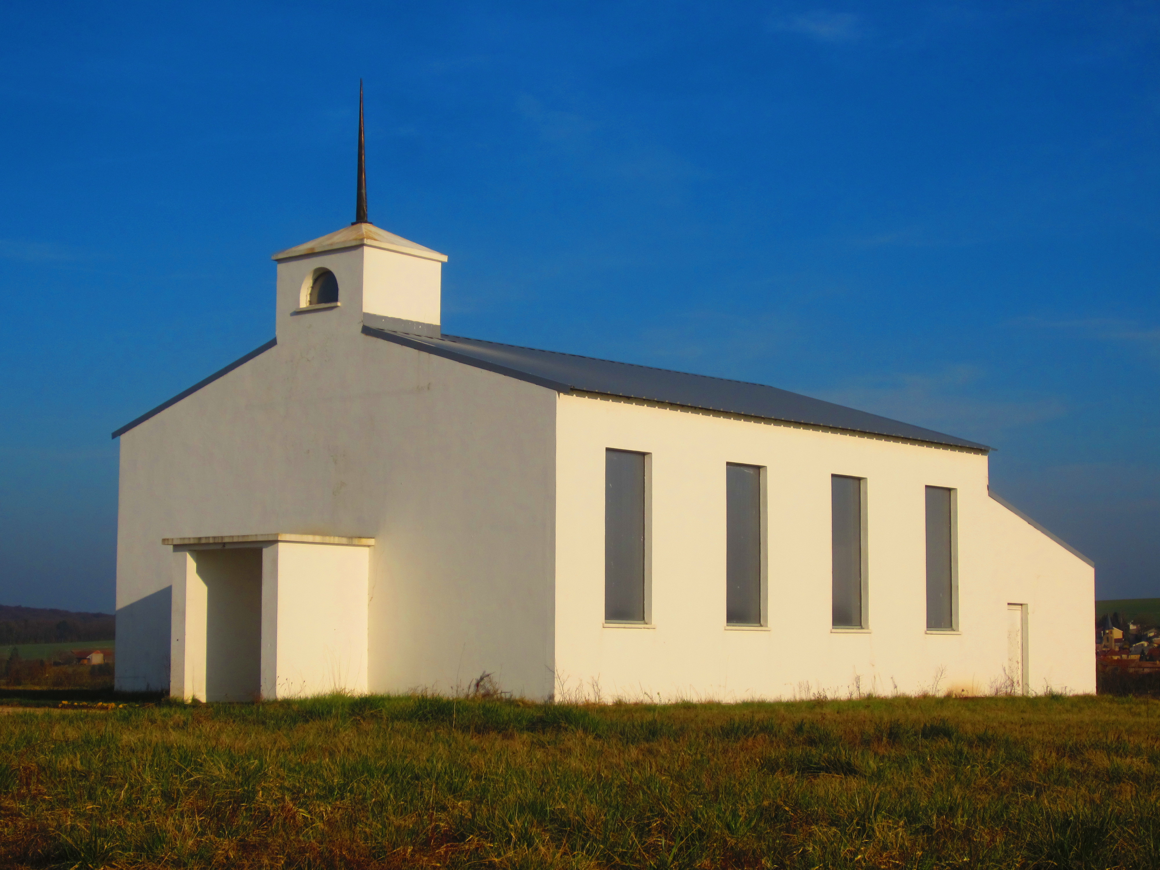 St Julien Gorze Chambley chapelle base